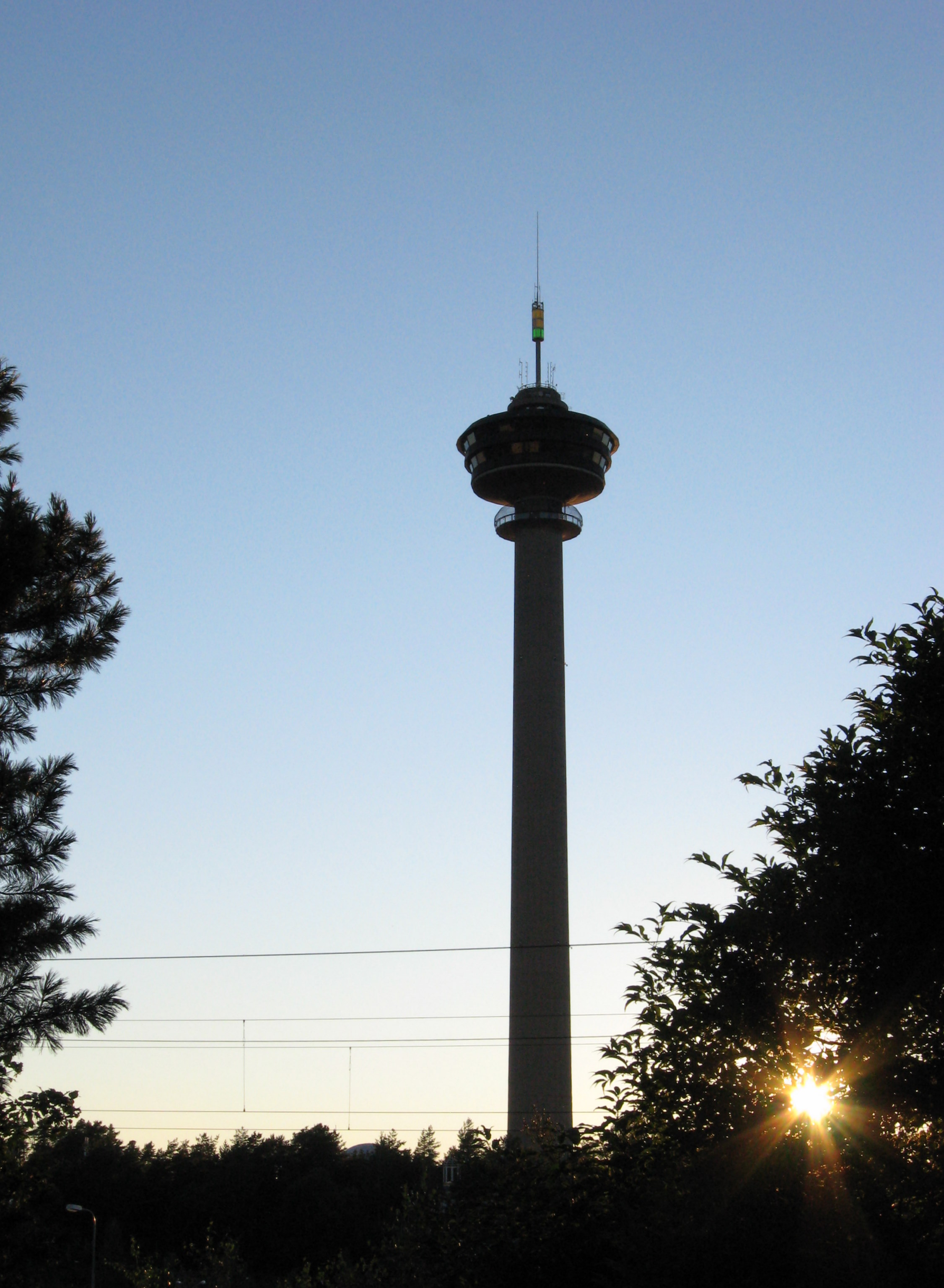 Näsinneula tower at Särkänniemi, summer evening silhouette. Tampere, Finland.